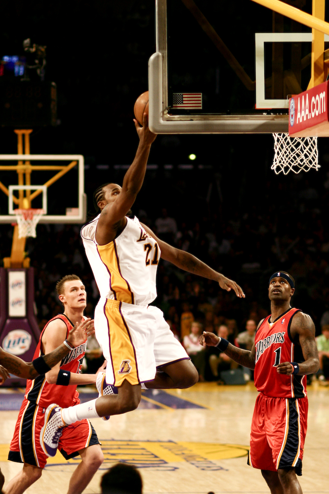 Ronny Turiaf going for a layup in 4th quarter of a Warrior/Laker game on March 23, 2008. Photographed by Asim Bharwani